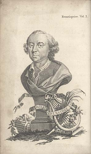 Portrait bust of William Shenstone (1714-1763) from the Frontispiece of The Works in Verse and Prose of William Shenstone, Esq., Vol. I, Second Edition (London, J Dodsley, 1765). Image kindly supplied by Revolutionary Players